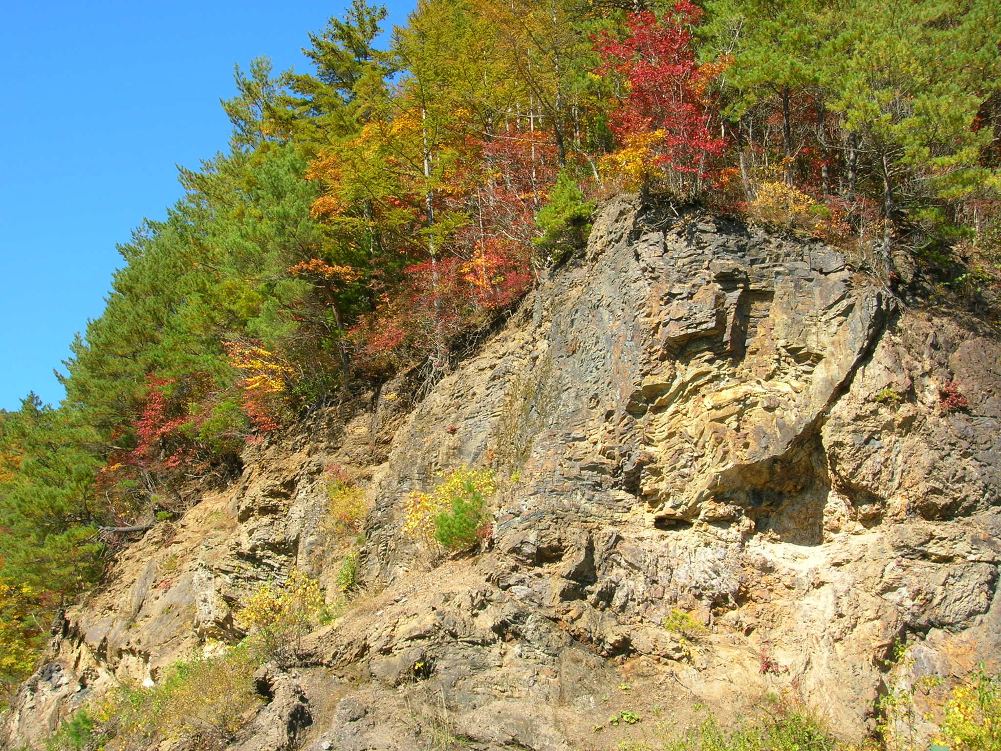 Flexure chert of ancient times. Loc: Kyuzo pass. Kiso town, Nagano Prefecture, Japan 褶曲した古代のチャート層 撮影場所 長野県木曽町(旧開田村)、九蔵峠